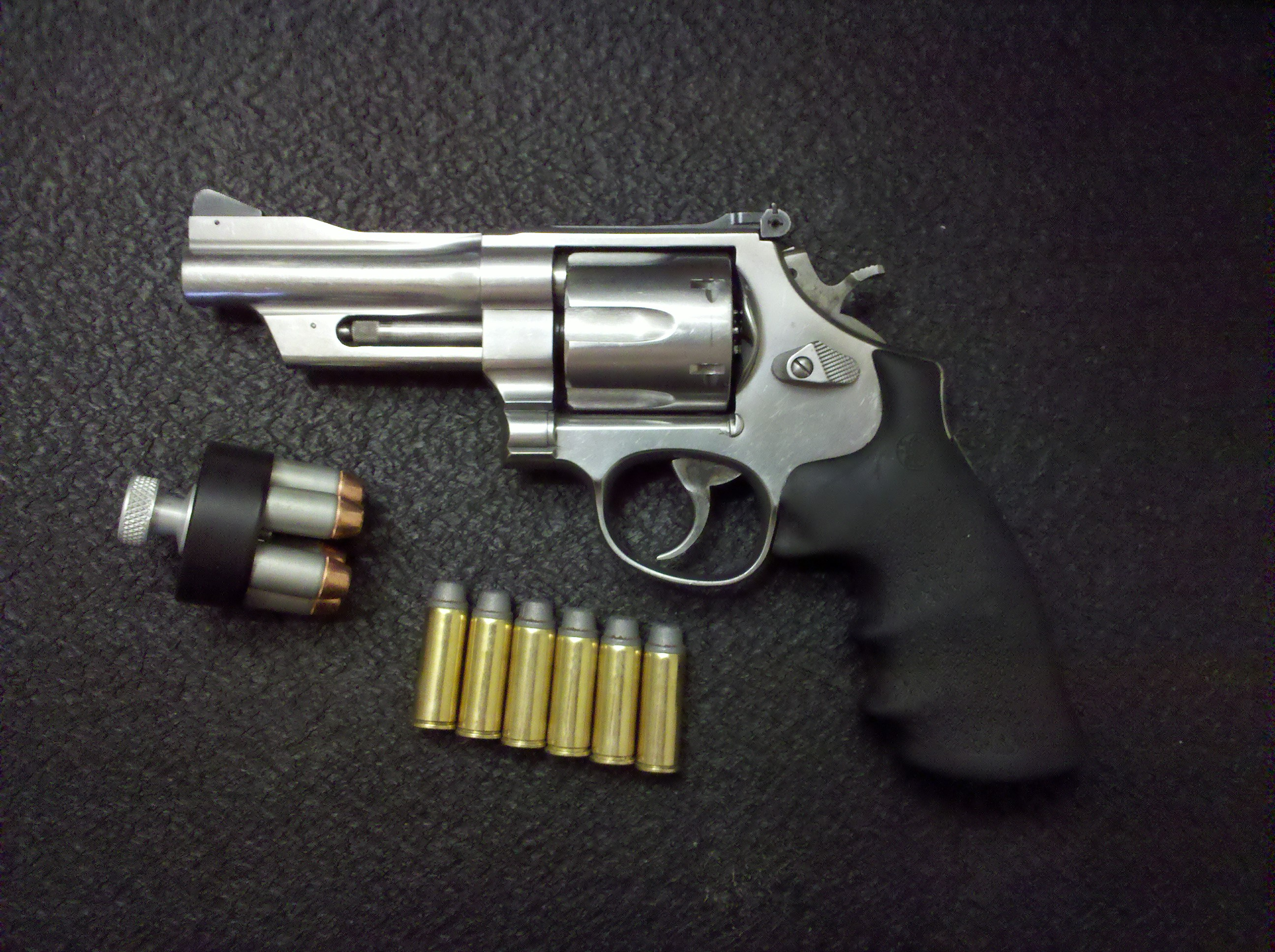 A photo of S&W Mountain Gun M625-6 .45 LC